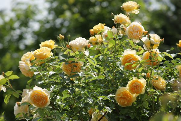 Roses in bloom at Ishida Rose Garden in the city of Odate, Akita Prefecture, Japan